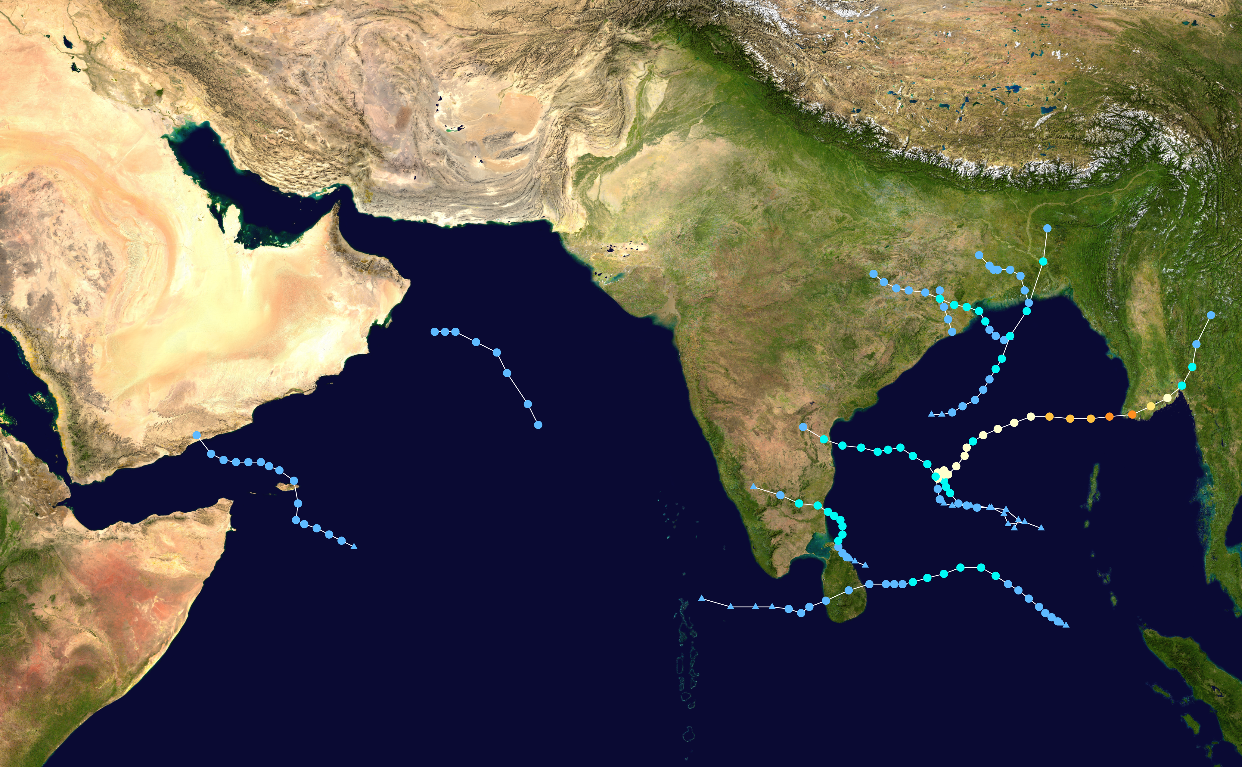 This map shows the tracks of all tropical cyclones in the 2008 North Indian Ocean cyclone season. The points show the location of each storm at 6-hour intervals. The colour represents the storm's maximum sustained wind speeds as classified in the Saffir-Simpson Hurricane Scale (see below), and the shape of the data points represent the type of the storm. Saffir–Simpson scale Tropical depression≤38 mph≤62 km/h Category 3111–129 mph178–208 km/h Tropical storm39–73 mph63–118 km/h Category 4130–156 mph209–251 km/h Category 174–95 mph119–153 km/h Category 5≥157 mph≥252 km/h Category 296–110 mph154–177 km/h Unknown Storm type Tropical cyclone Subtropical cyclone Extratropical cyclone / Remnant low / Tropical disturbance / Monsoon depression